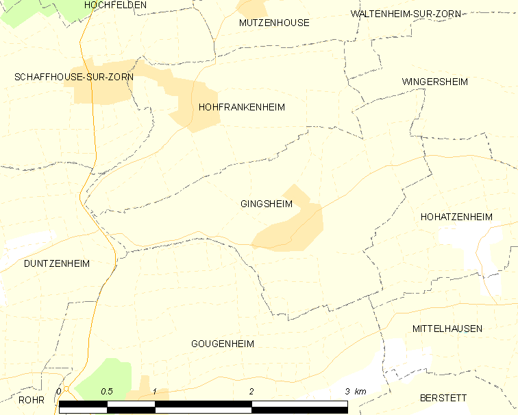 Map of French municipality